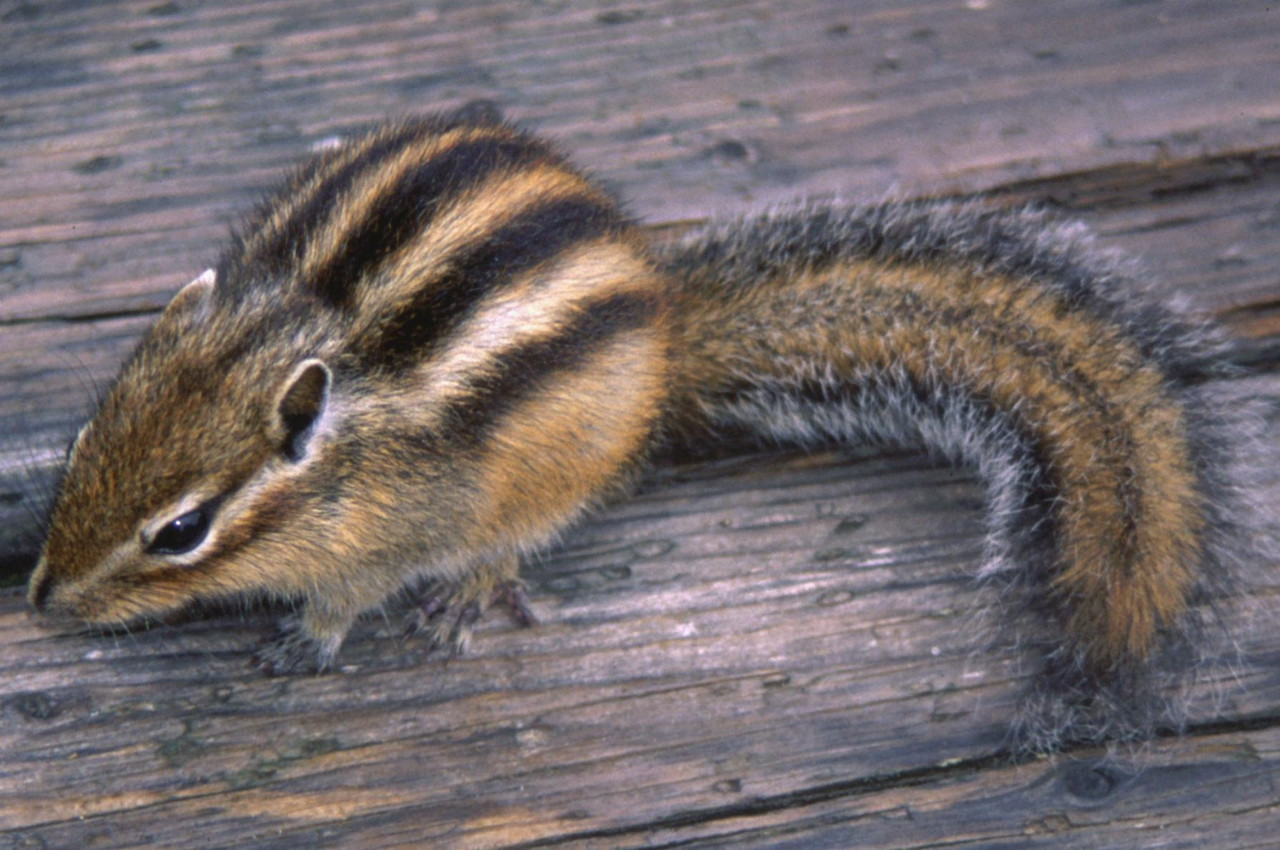 Tamias sibiricus lineatus, in Mount Taisetsu, Hokkaido, Japan.